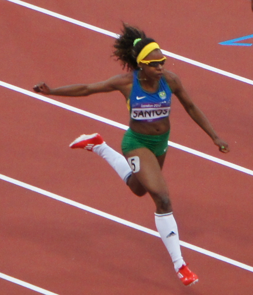 London 2012 Olympics Athletics